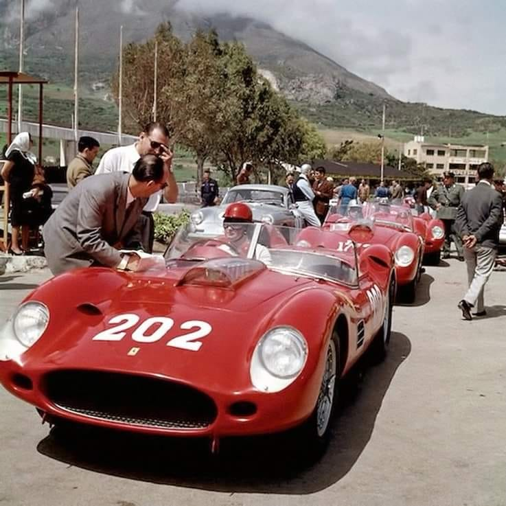 The 1959 Ferrari 250 TR59/60 Fantuzzi Spyder s/n 0772TR (or 0774TR, some will say).[1] Drivers were Cliff Allison and Richie Ginther. They ha an accident and did not finish.[2]